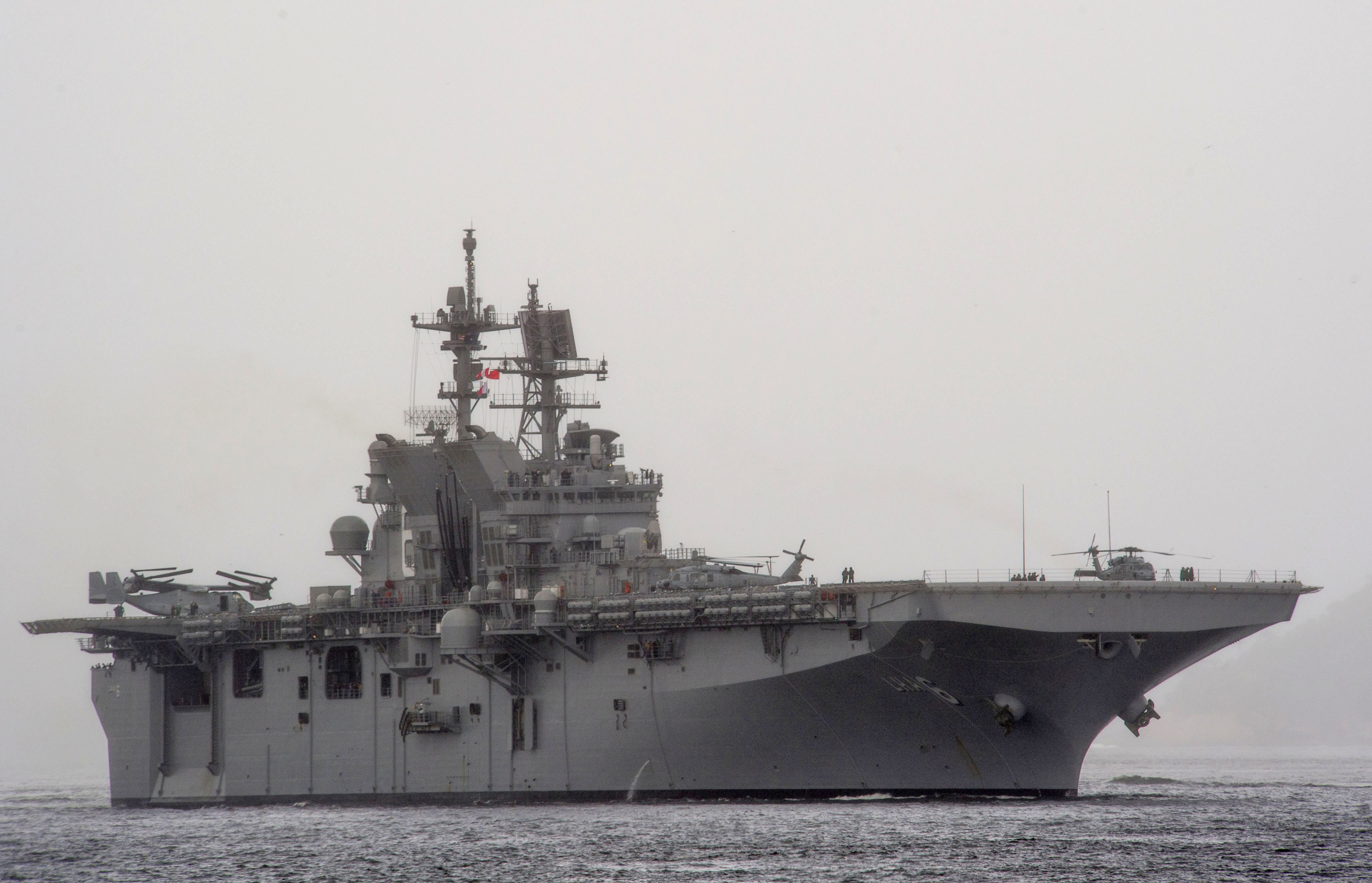 The U.S. Navy amphibious assault ship USS America (LHA-6) approaches Rio De Janeiro, Brazil, for a scheduled port visit. America was traveling through the U.S. Southern Command and U.S. 4th Fleet areas of responsibility on its maiden transit, "America visits the Americas." The ship was scheduled to be ceremoniously commissioned on 11 October 2014 in San Francisco, California (USA).